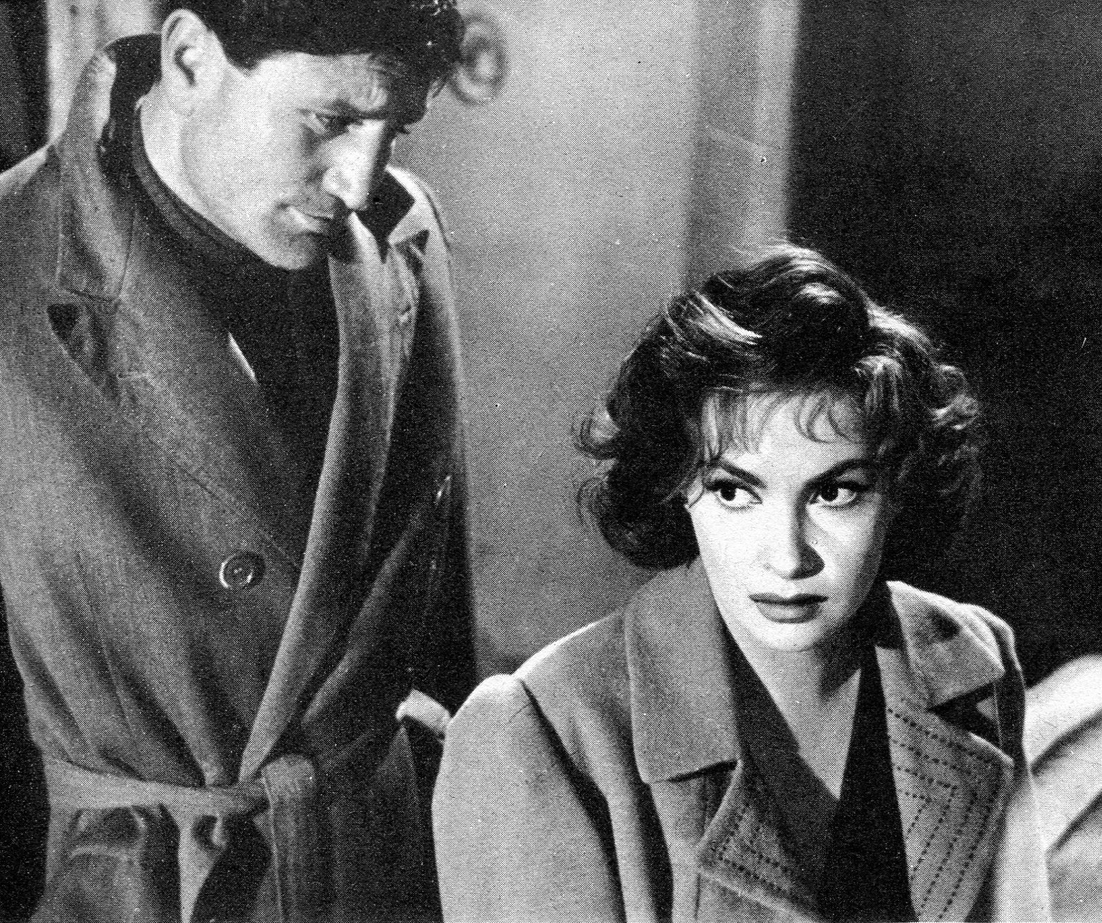 Woman of Rome (1954)